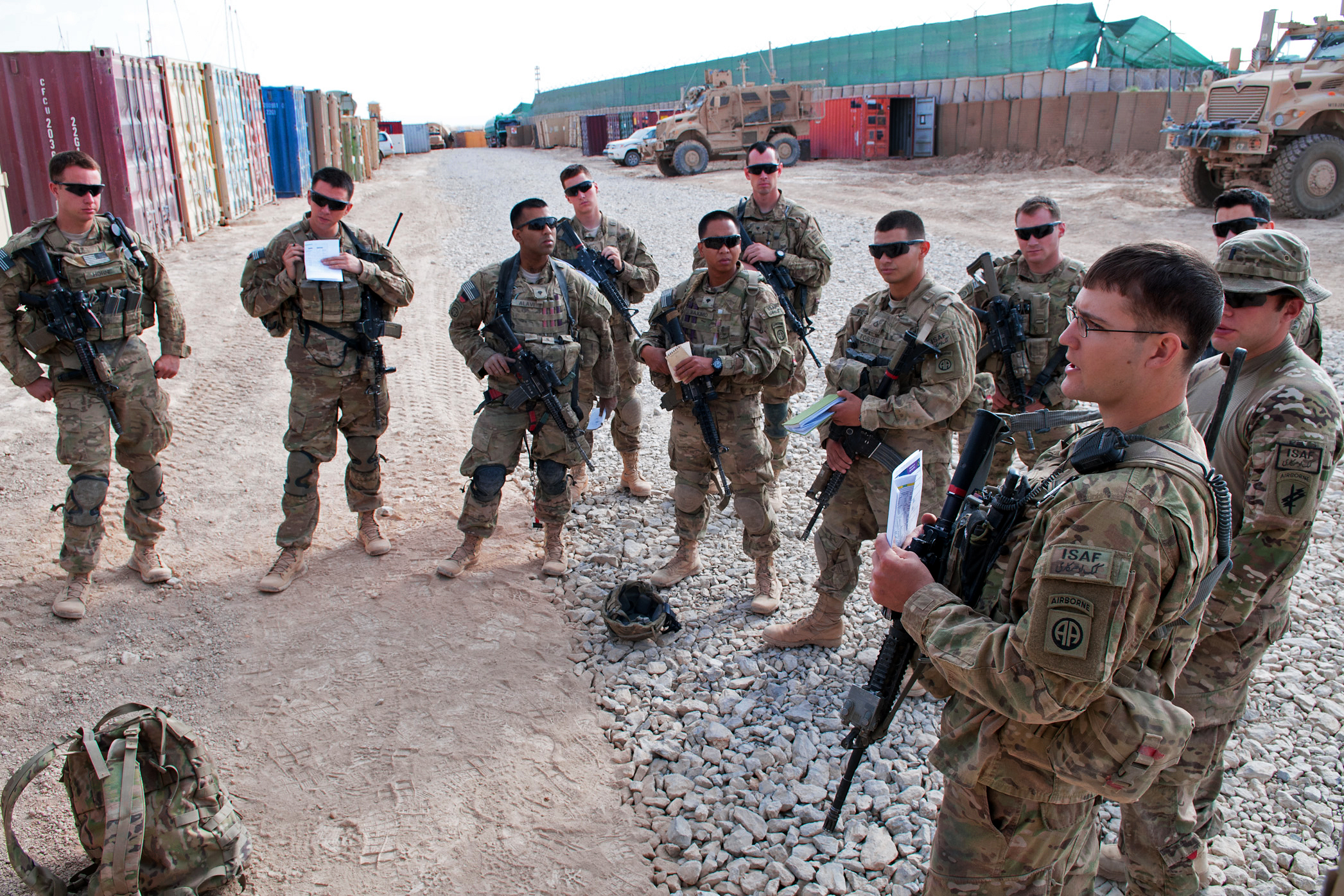 U.S. Army 2nd Lt. Jason Callison briefs soldiers who will escort his battalion commander to a security meeting in the Qara Bagh district in Afghanistan's Ghazni province, July 16, 2012. Callison, a platoon leader, is assigned to the 82nd Airborne Division's 2nd Battalion, 504th Parachute Infantry Regiment, 1st Brigade Combat Team. U.S. Army photo by Sgt. Michael J. MacLeod